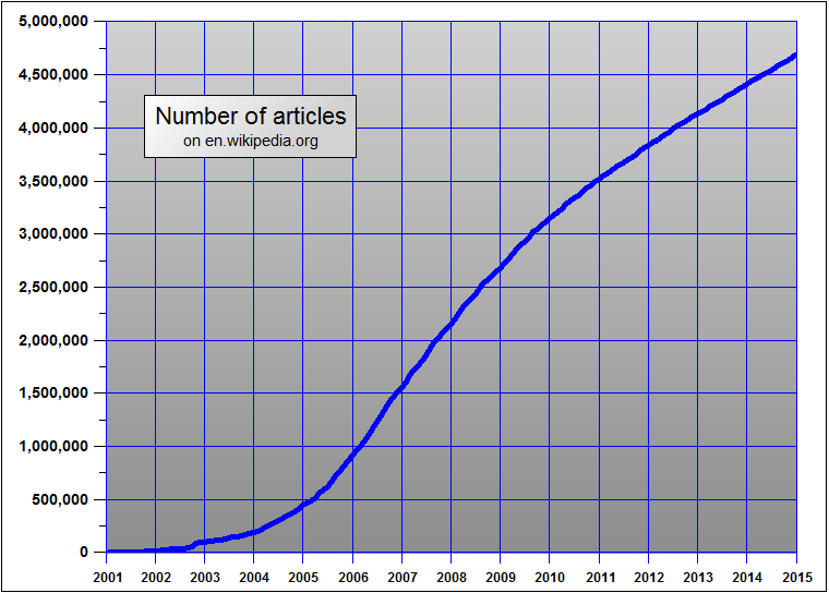 Number of articles on